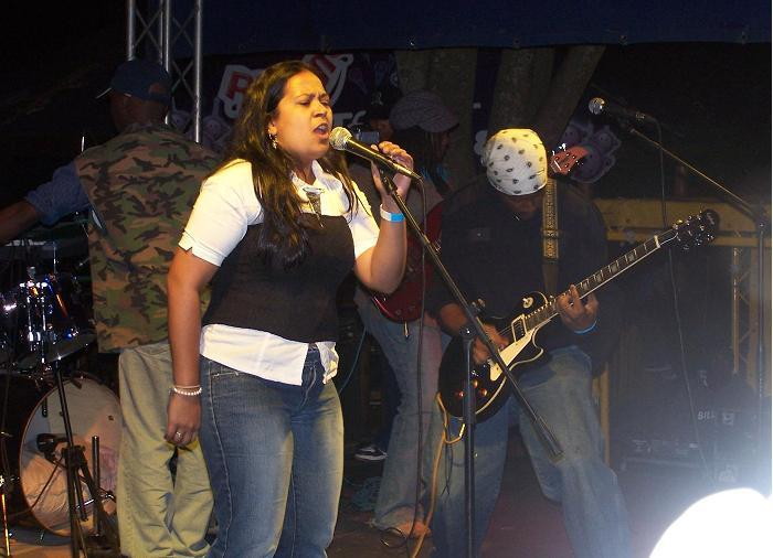 Murfy's fLaw at Rocktoberfest - Carnivore in Nairobi.